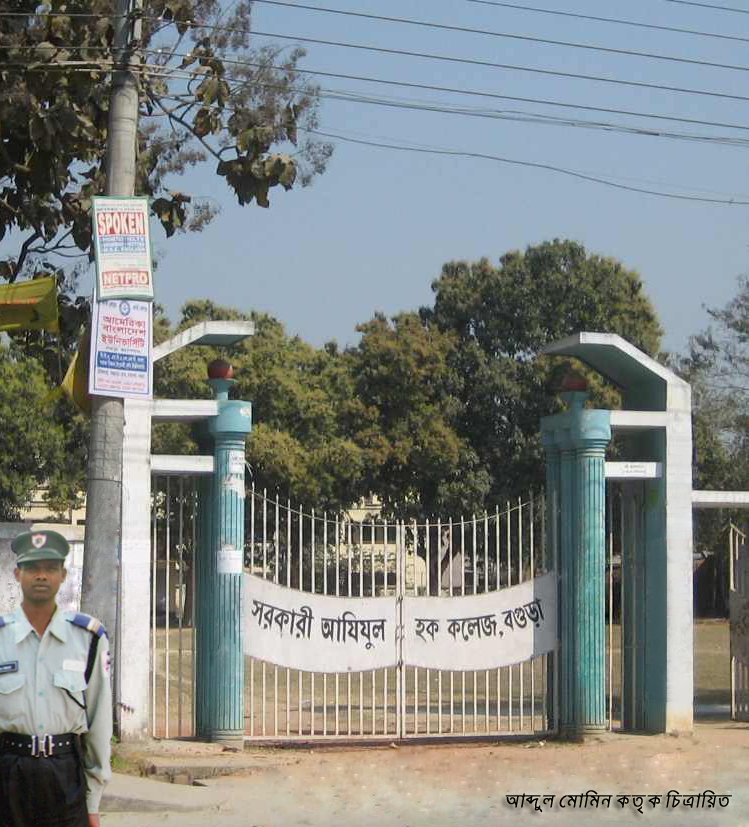 Front gate of the old building of Govt. Azizul Haque College, Bogra.